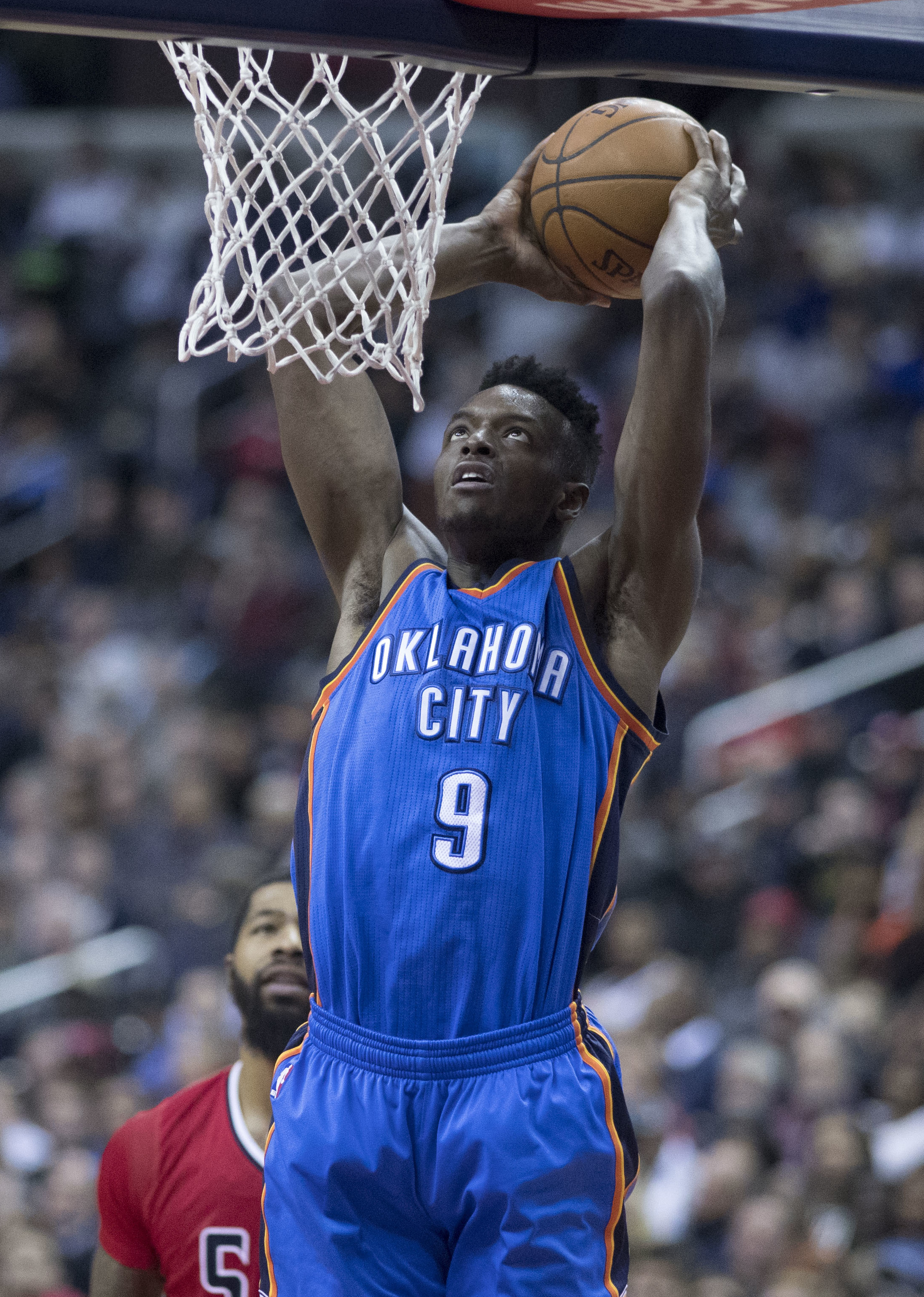 Thunder at Wizards 2/13/17